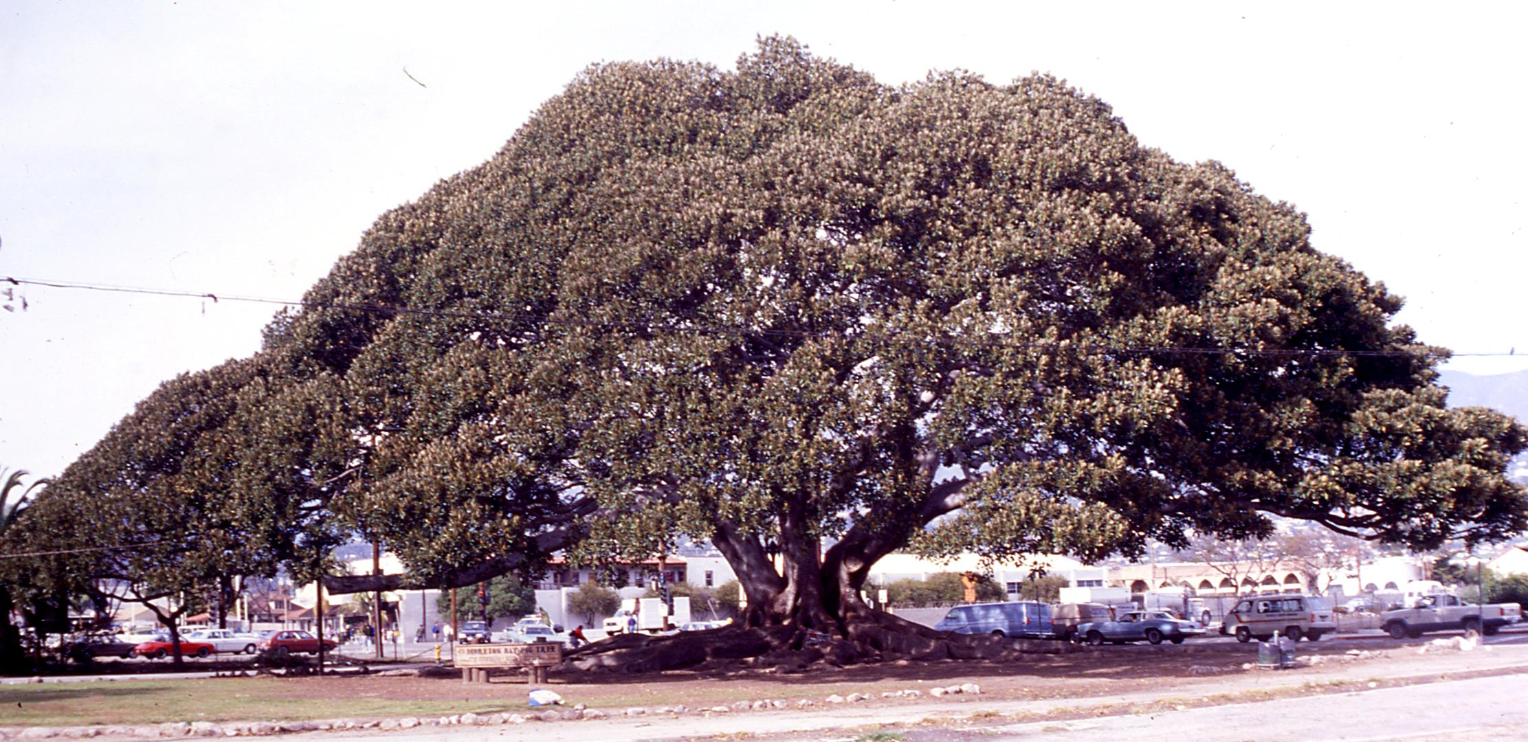 The Moreton Bay fig tree in Santa Barbara, believed to have been planted in 1877.